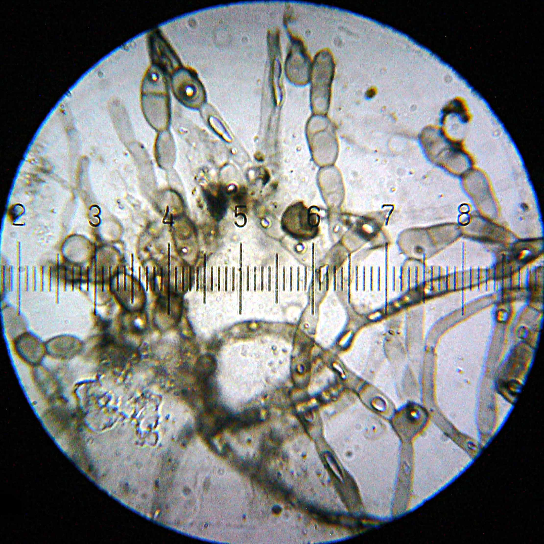 Mildew, growing on a wooden soap holder. 100× objective, 15× eyepiece; numbered ticks are 11 µM apart. The full-sized version of this image is scaled such that each pixel represents a 0.038 µM square.